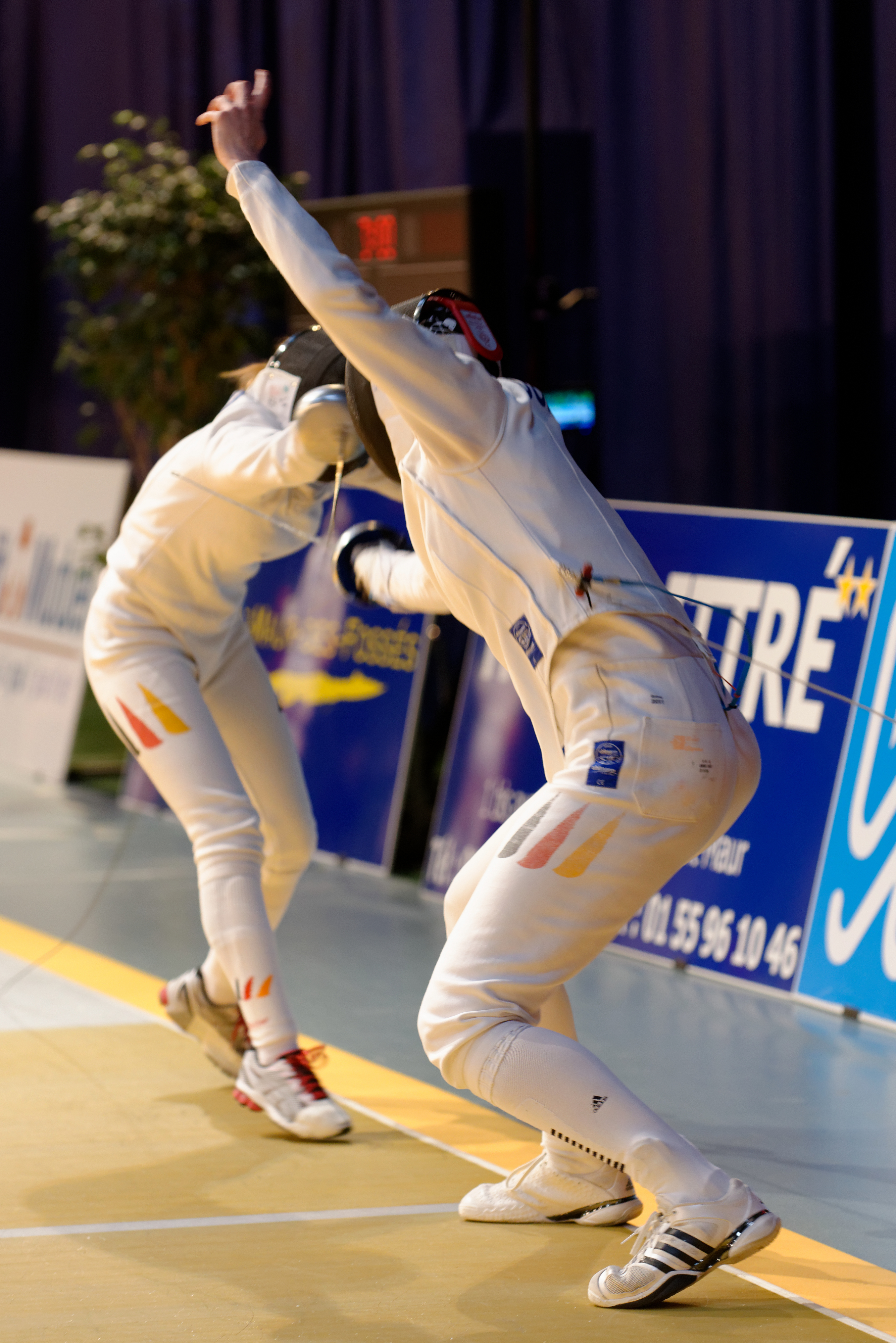 Monika Sozanska (left) v Imke Duplitzer (right). 1/16-final of the Challenge international de Saint-Maur 2013, women's épée World Cup tournament.